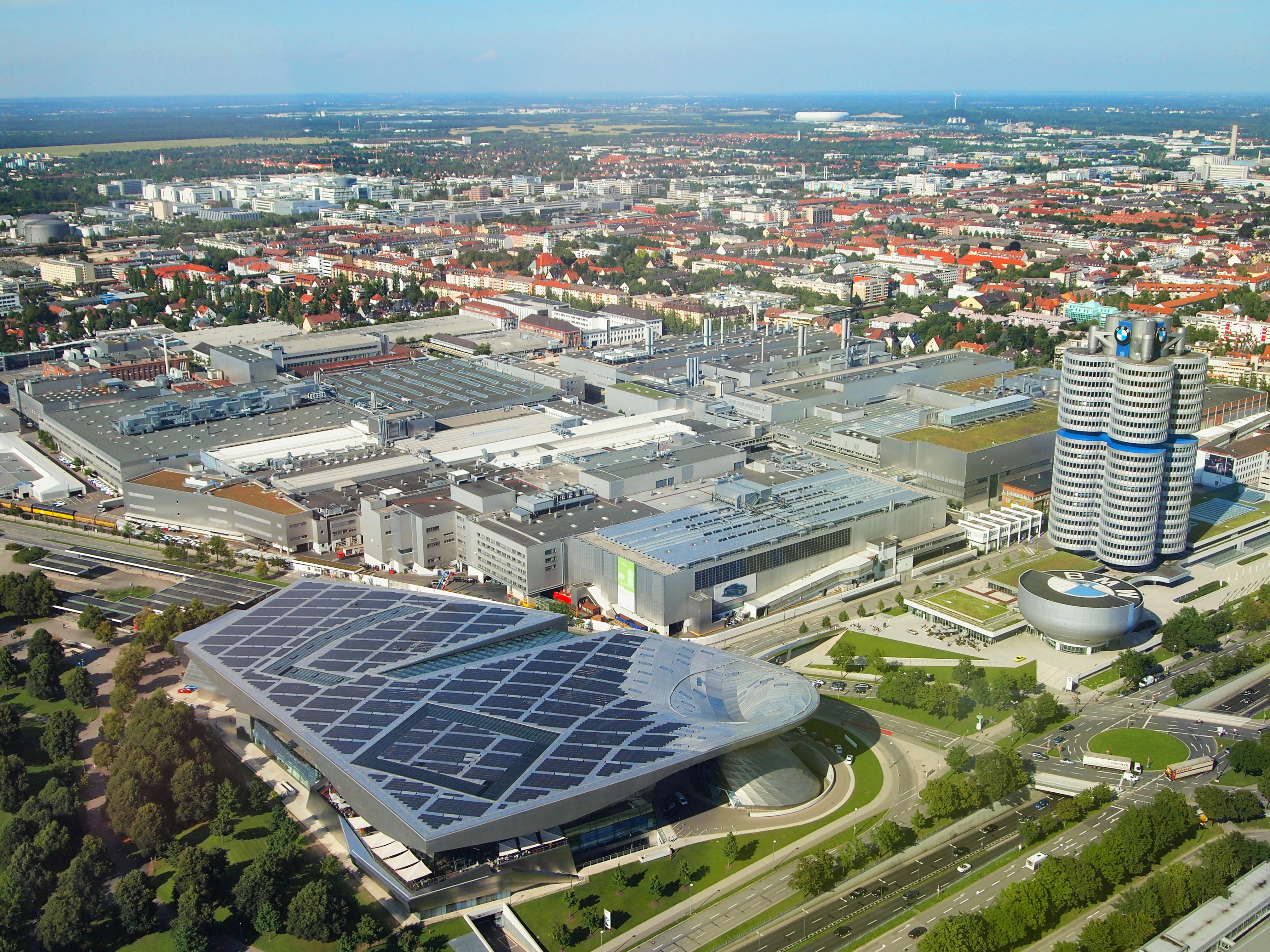 View from Olympiaturm to BMW buildings, Munich.This photograph was taken with an Olympus E-PL1